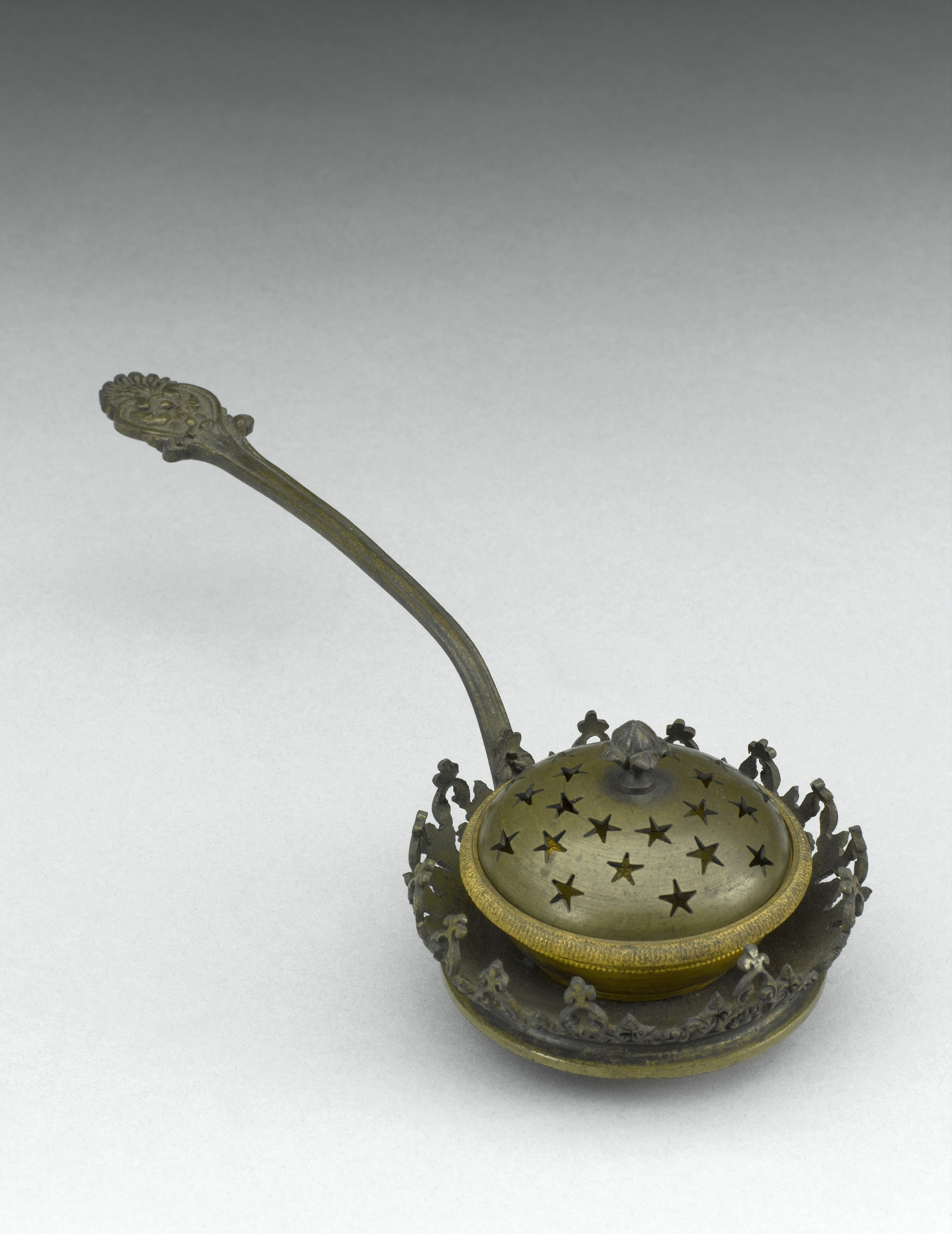 Sweet smelling herbs and plants were set alight inside this brass fumigator and the smoke given off was used to purify and disinfect the air around the person carrying the torch. It is based on the miasma theory, the idea that disease was caused by bad smells in the air from rotting animal matter, human waste and stagnant water. This theory of disease also appeared to give an explanation for why rubbish strewn poor areas with bad sanitation were more at risk from disease. maker: Unknown maker Place made: France Wellcome Images Keywords: fumigator; disinfectant; Disinfectants; miasma